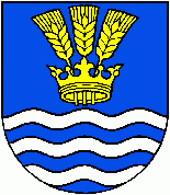 Coat of arms of Sobrance, Slovakia